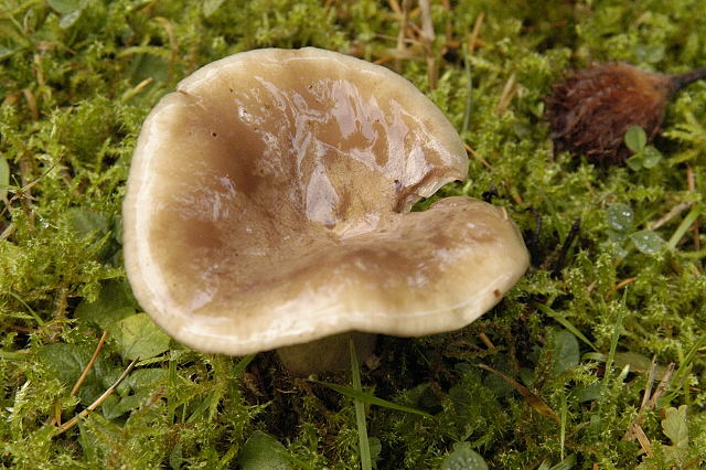 Lactarius spec. from Commanster, Belgium. The determination of the species shown in this picture has been verified.